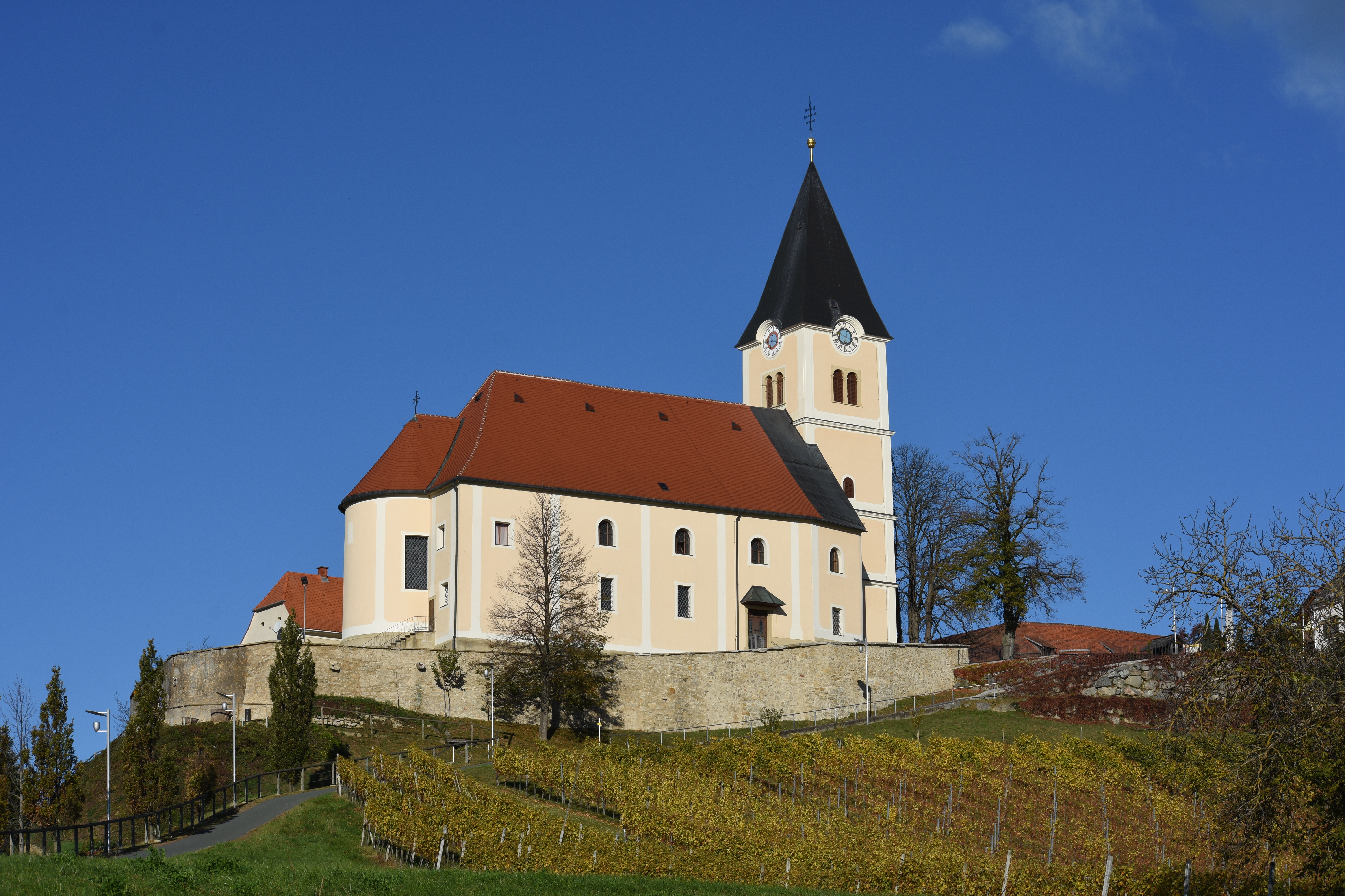 Pfarrkirche St. Anna, St. Anna am Aigen